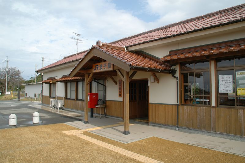 JR-WEST(JAPAN) Sanin Line, Hashi Sta. photo by 2005.10.15